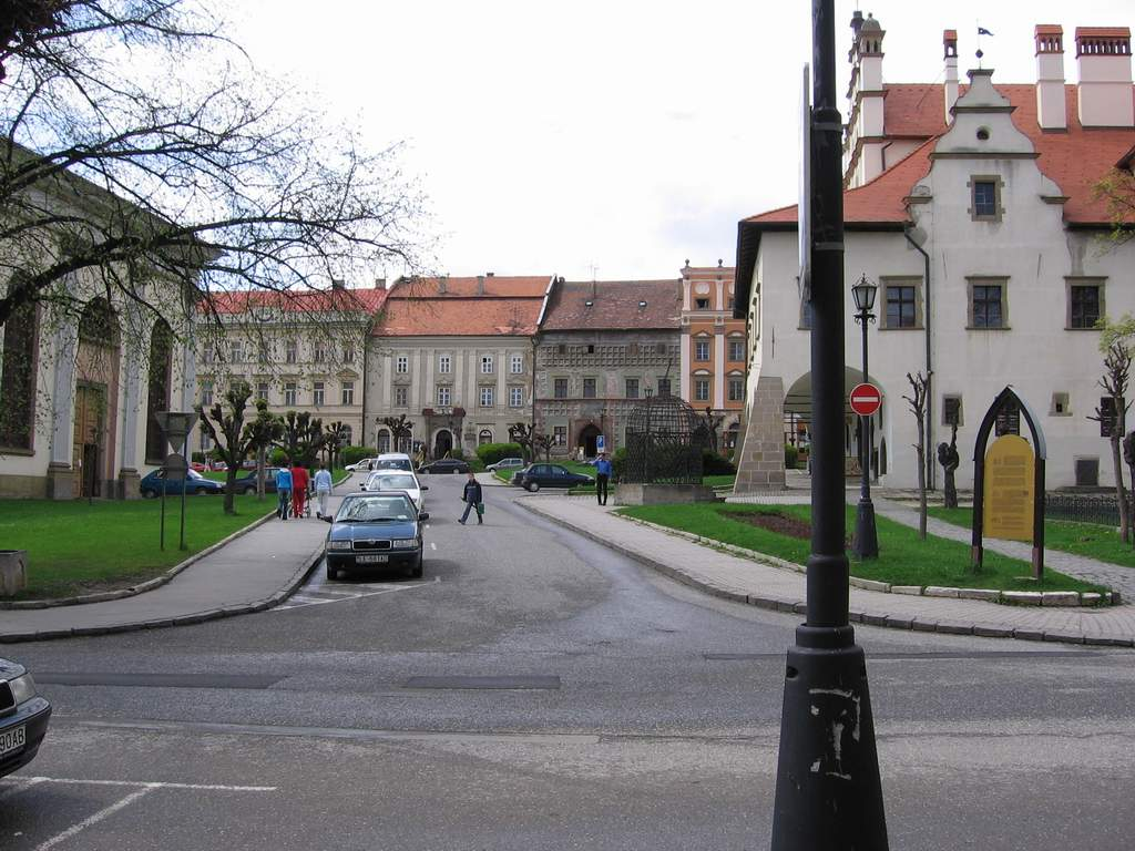 A view across the main square of the oldtown in Levoča.